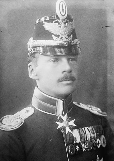 Prince Georg of Bavaria (1880-1943)